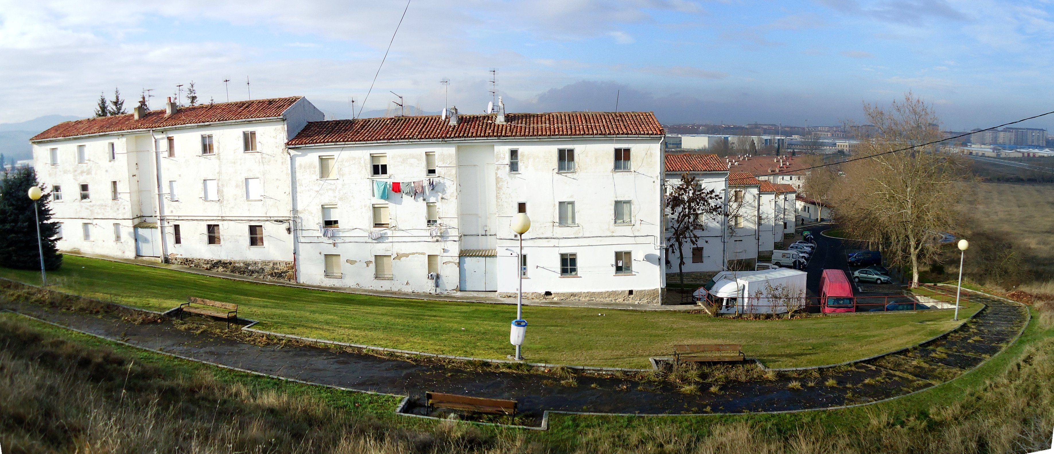 View of the old Errekaleor neighbourhood in 2010 (Vitoria-Gasteiz, Araba, Basque Country, Spain)